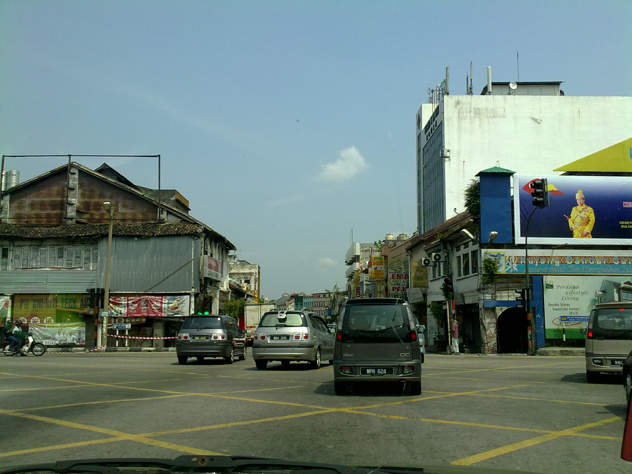 Kajang Town Main Junction